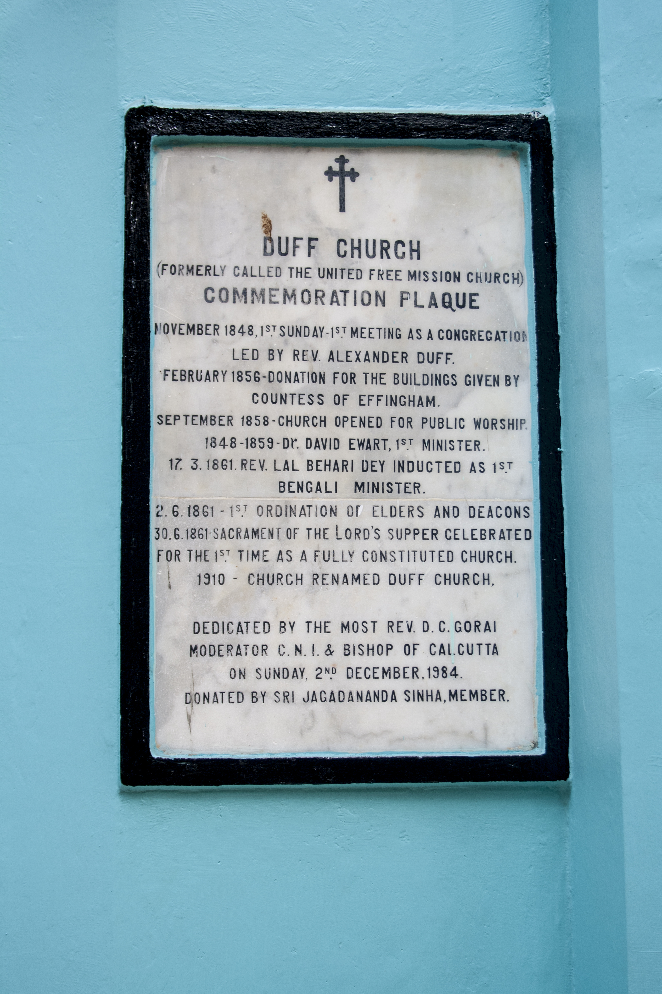 Duff Church in Kolkata.